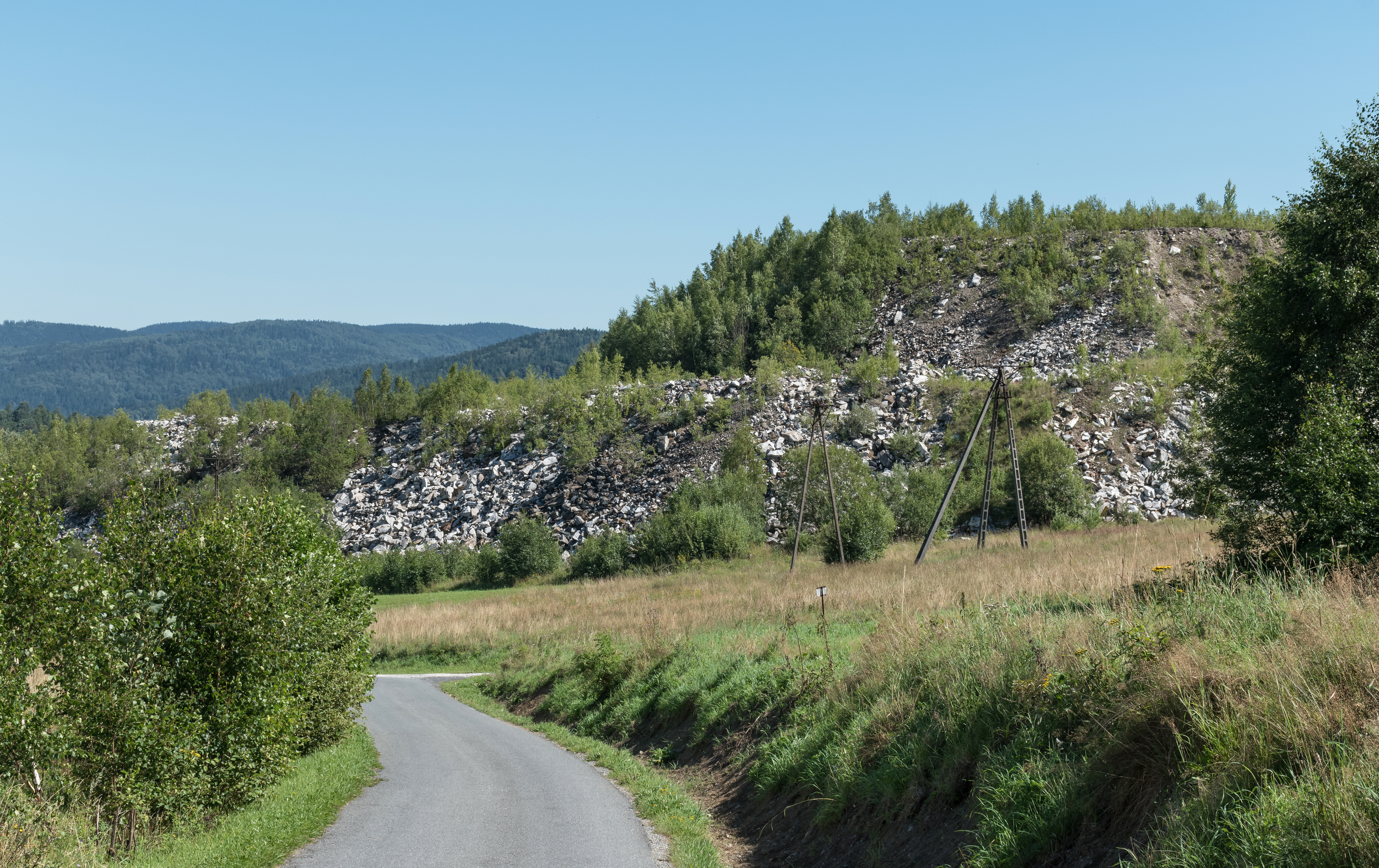 Slag heaps in Stronie Śląskie Wieś